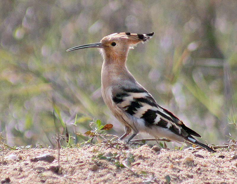 Common Hoopoe Upupa epops in Kolkata, West Bengal, India.